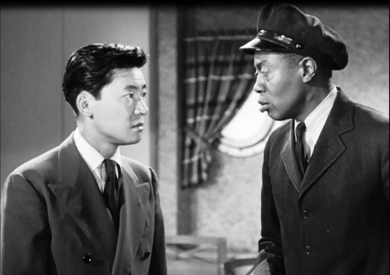 Low resolution screenshot of Victor Sen Yung as Jimmy Chan and Willie Best as Chattanooga Brown from the American film Dangerous Money (1946). The film is in the public domain due to the omission of a valid copyright notice on its original prints.